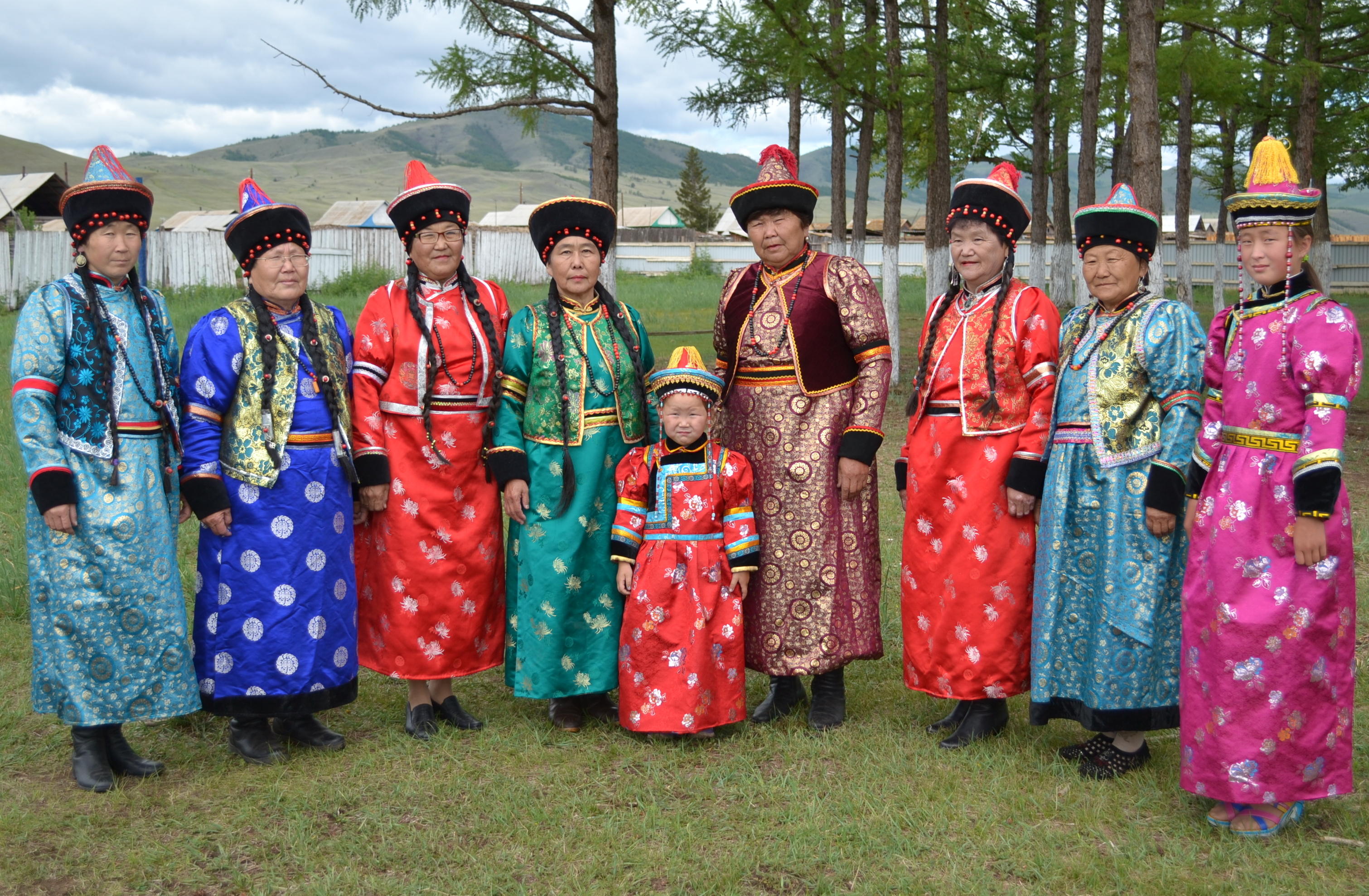 Sartuul - Mongol clan, which came to the territory of Buryatia in the early 18th century. They live mainly in Dzhida districts. Tsagatuy village.